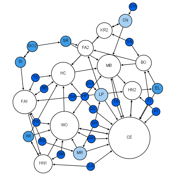 Mapping the social affinities of a group of individuals, Moreno’s first sociograms visualize the relationships between pupils in a classroom: who wants to be sitting next to whom? Each child can choose two others, for results that suggest that sociabilities are changing over time: the proportion of attractions between boys and girls decrease, community structures are formed and then disappear, etc. Source: Grandjean, Martin (2015) Social network analysis and visualization: Moreno’s Sociograms revisited. Caption: Redesigned network strictly based on Moreno (1934), Who Shall Survive. Size and color of the nodes indicating the number of incoming connections ("in-degree" dark blue=0; white=3 and more).